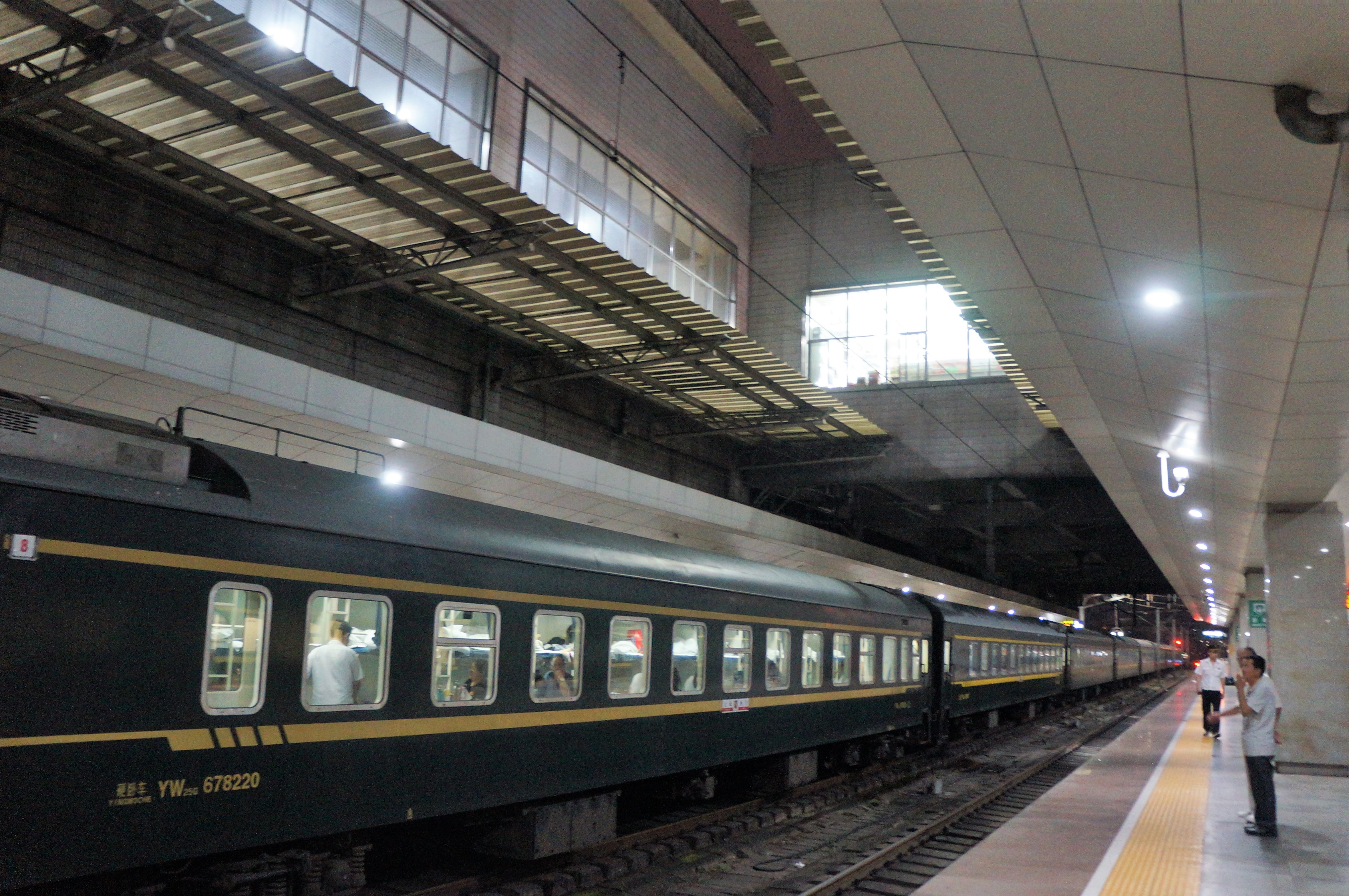 201806 YW25G-678220 from K2188 at Xuzhou Station